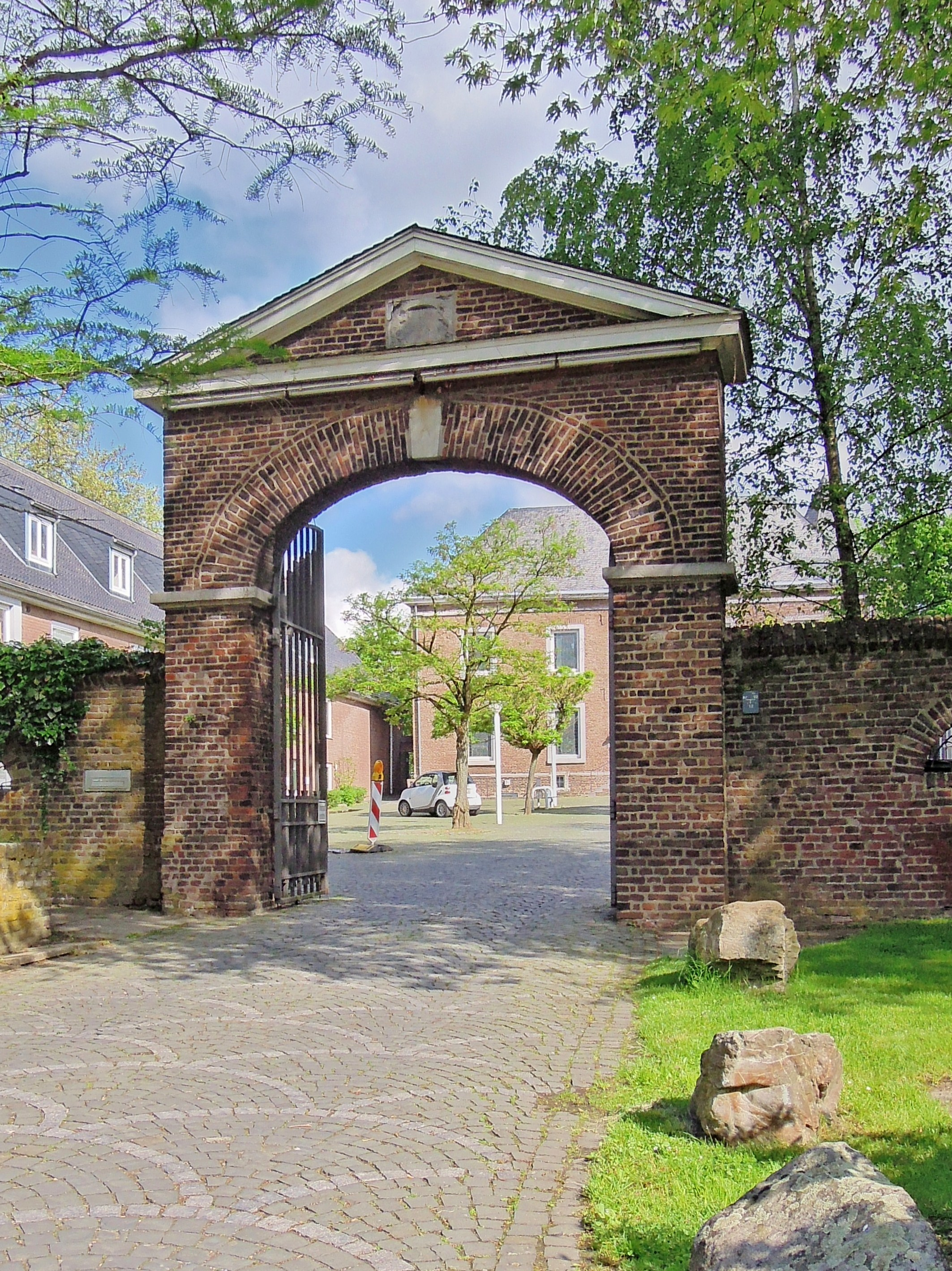 Drimbornshof in Dürwiß